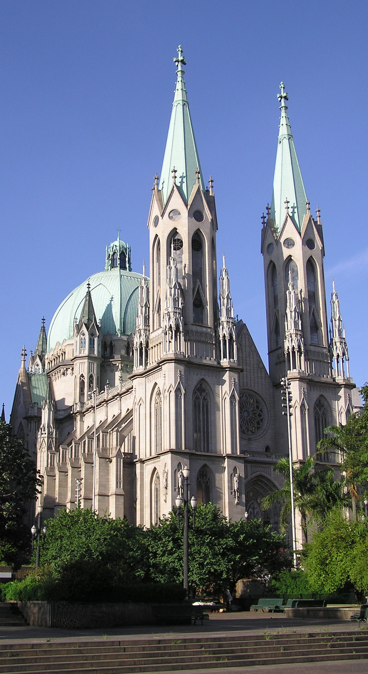 Cathedral Metropolitana